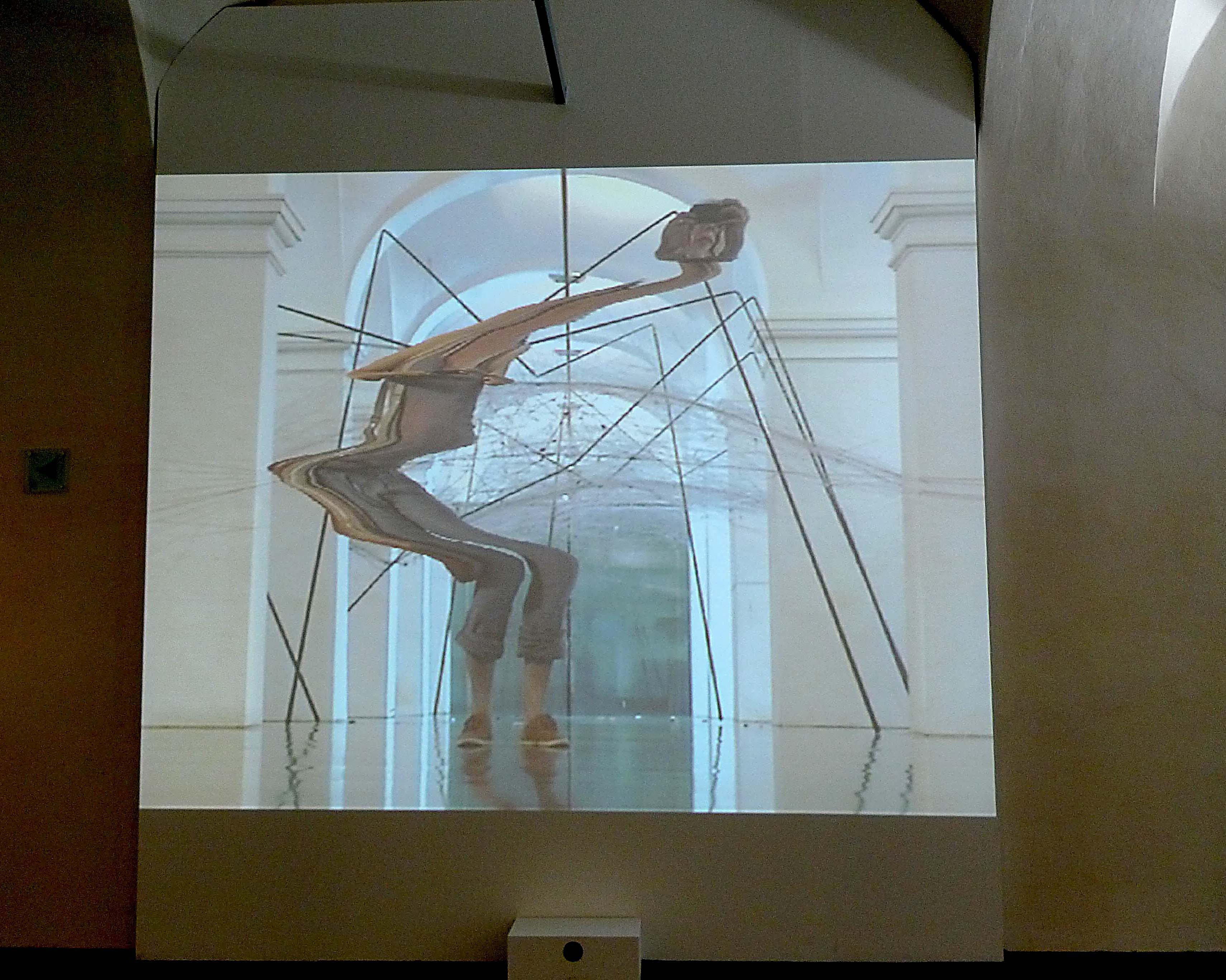 regionale10 in Admont